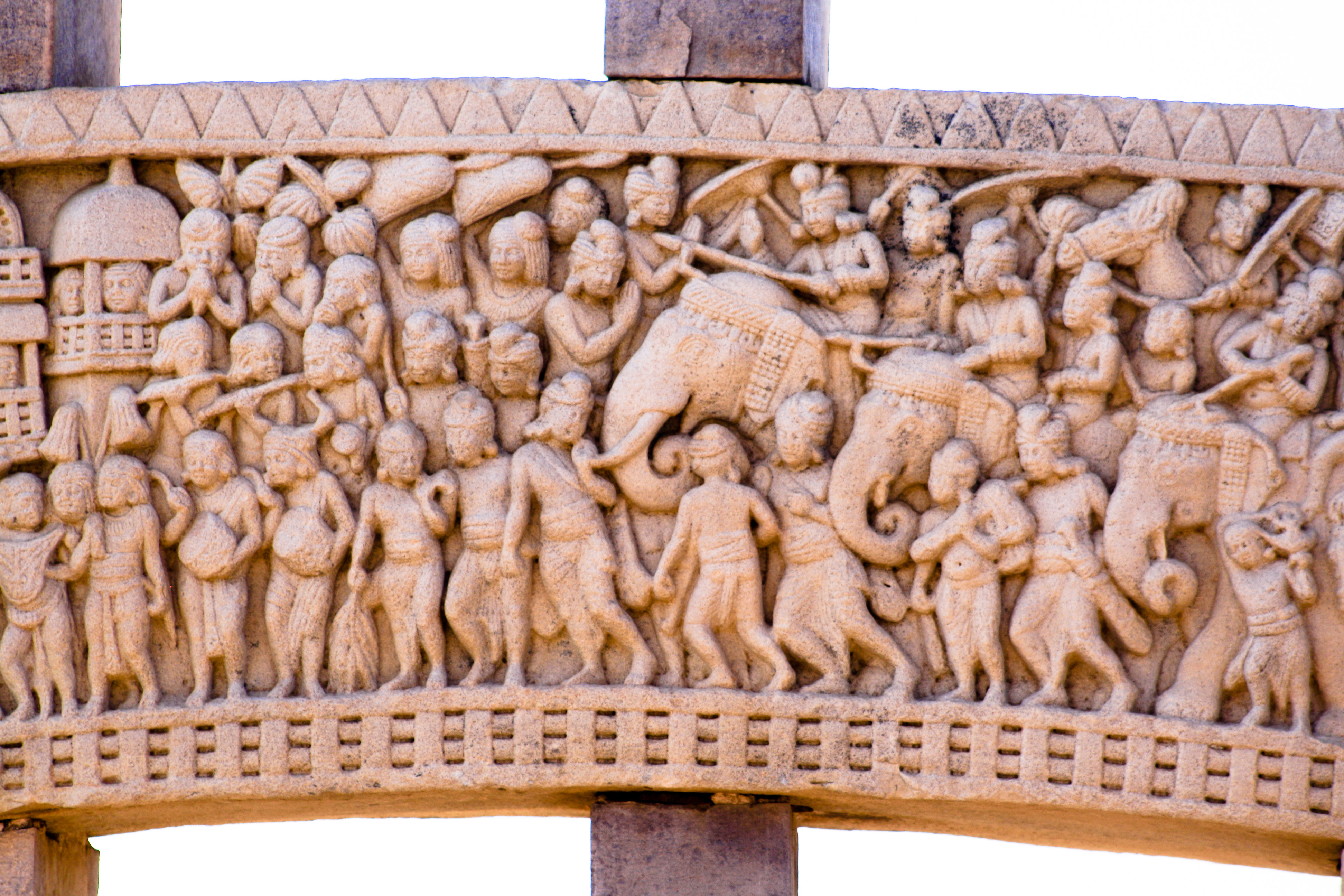 A royal procession with elephants.